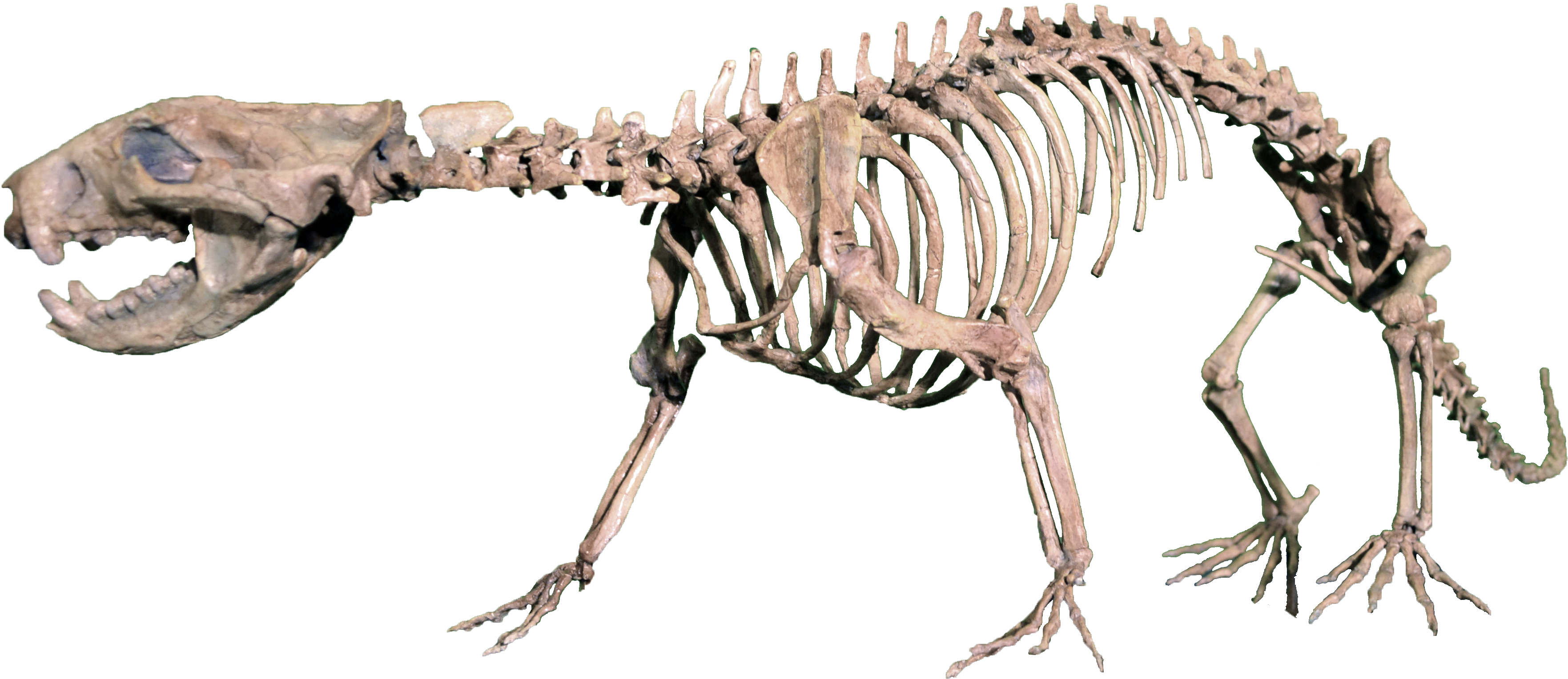 Complete reconstruction of Didelphodon vorax based on the only known mammal skeleton from the Lancian stage of the Cretaceous; in the Rocky Mountain Dinosaur Resource Center, Woodland Park, CO